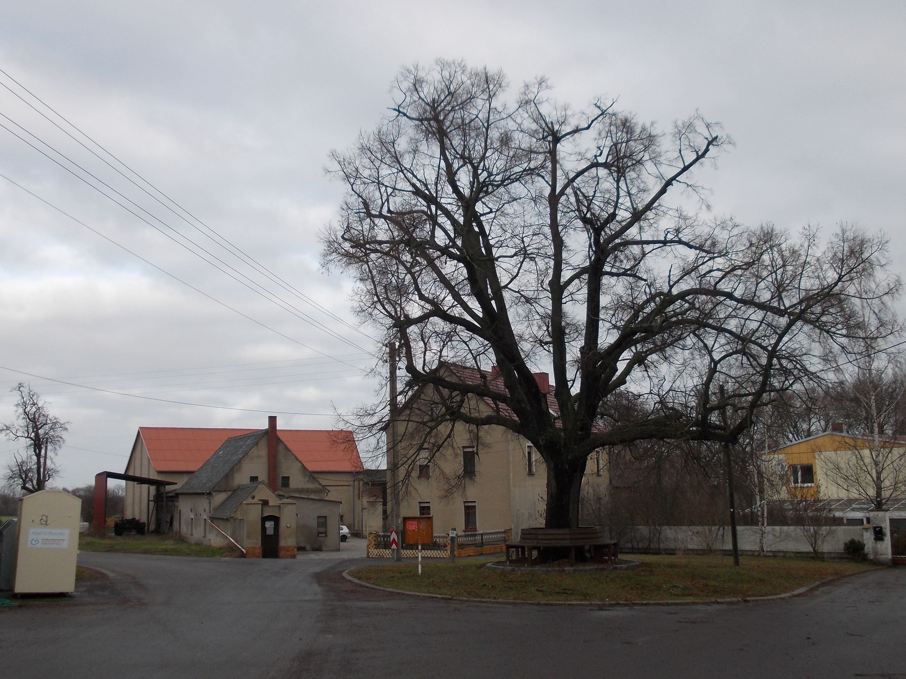 In Gordemitz (Jesewitz, Nordsachsen district, Saxony)